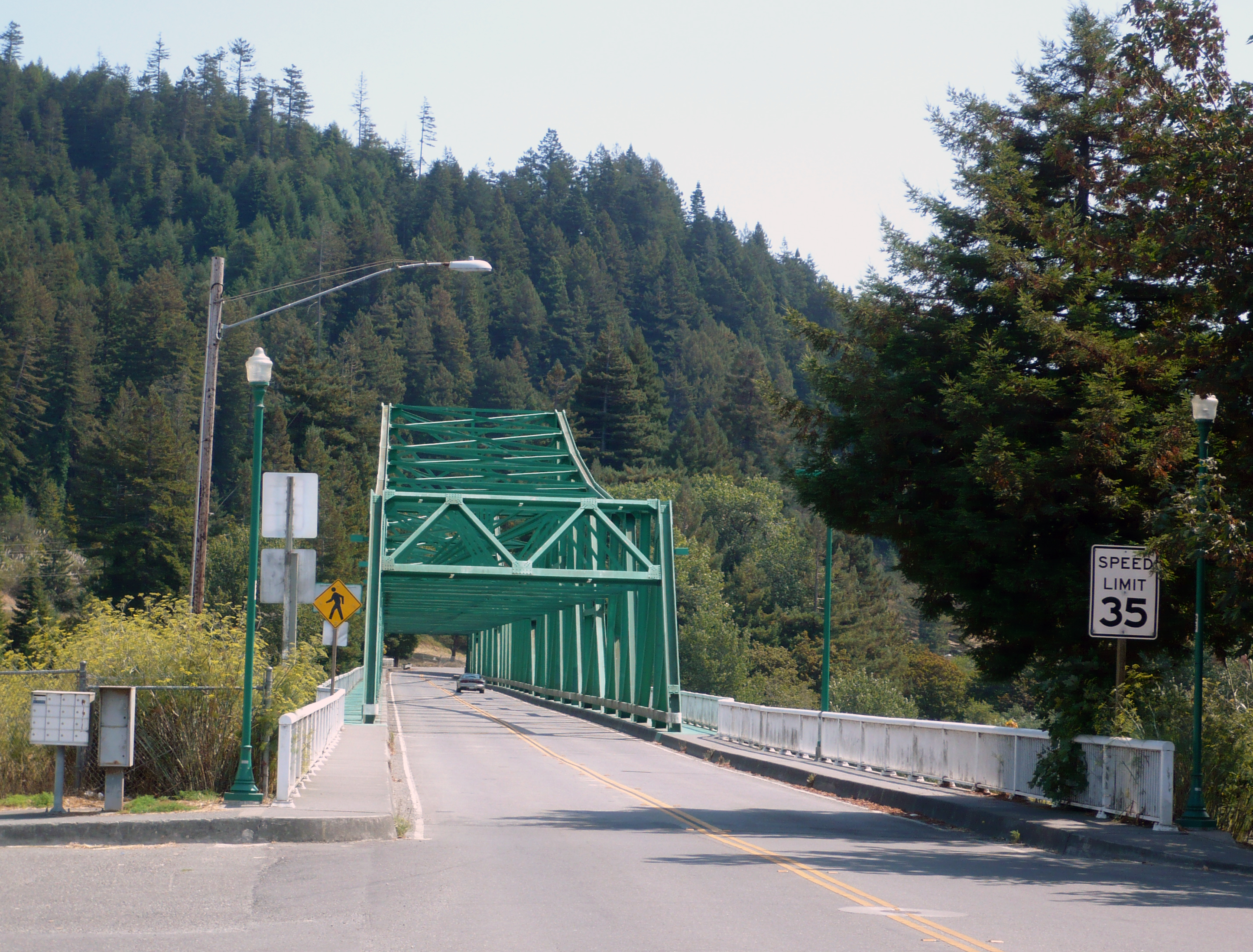 Eagle Prairie Bridge is the entire California State Route 283; defined as from U.S. Route 101 south of Rio Dell to the north end of the Eel River Bridge and Overhead (built 1941) in Rio Dell, California. Eagle Prairie Bridge connects Scotia and Rio Dell, California and is California's shortest state route. In 1977 it was named for Albert Stanwood Murphy (b. 1892-?) the president of Pacific Lumber Company who helped the Save-the-Redwoods League to preserve redwood park land. In 1990 the bridge was renamed "Eagle Prairie Bridge" at the 25th anniversary of the incorporation of the city of Rio Dell and the 50th anniversary of the bridge's construction.